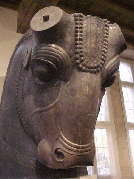 Persian bull statue from Persepolis, 485/424 BC, Oriental institute, ChicagoPersian bull statue from Persepolis